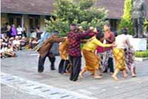 game in java